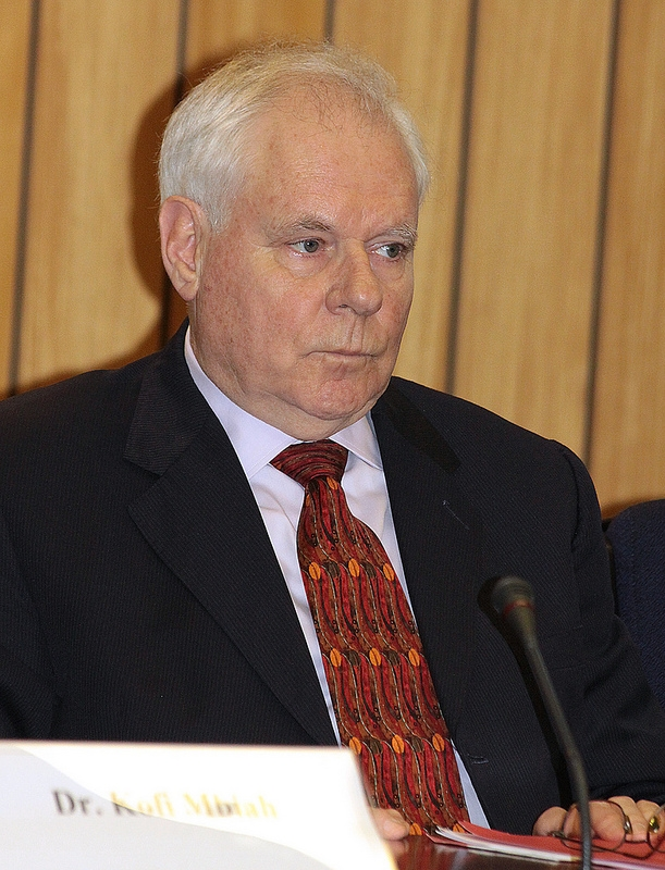 Alfred Popp, QC, former chairman IMO legal committee